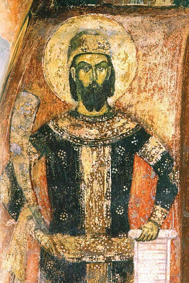 King Marko Mrnjavčević. Part of the fresco ensemble above the south entrance to the church of Marko's Monastery near Skopje, Macedonia.